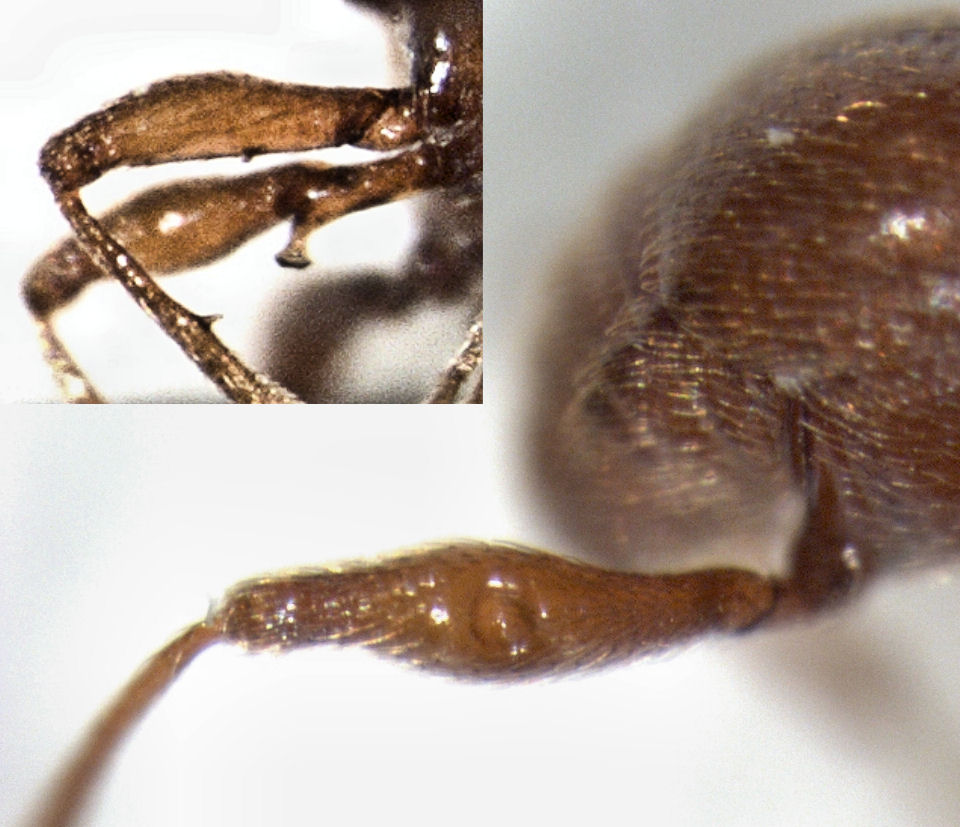 adult Gerallus punctipennis, showing leg modifications